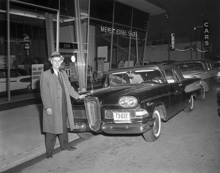 Title: Meyer Edsel Co. Creator: Adolph B. Rice Studio Date: 1958 Jan. 30 Identifier: Rice Collection 1676A Format: 1 negative, safety film, 4 x 5 in. Repository: Library of Virginia, Prints and Photographs, 800 E. Broad St., Richmond, VA, 23219, USA, :8881/R